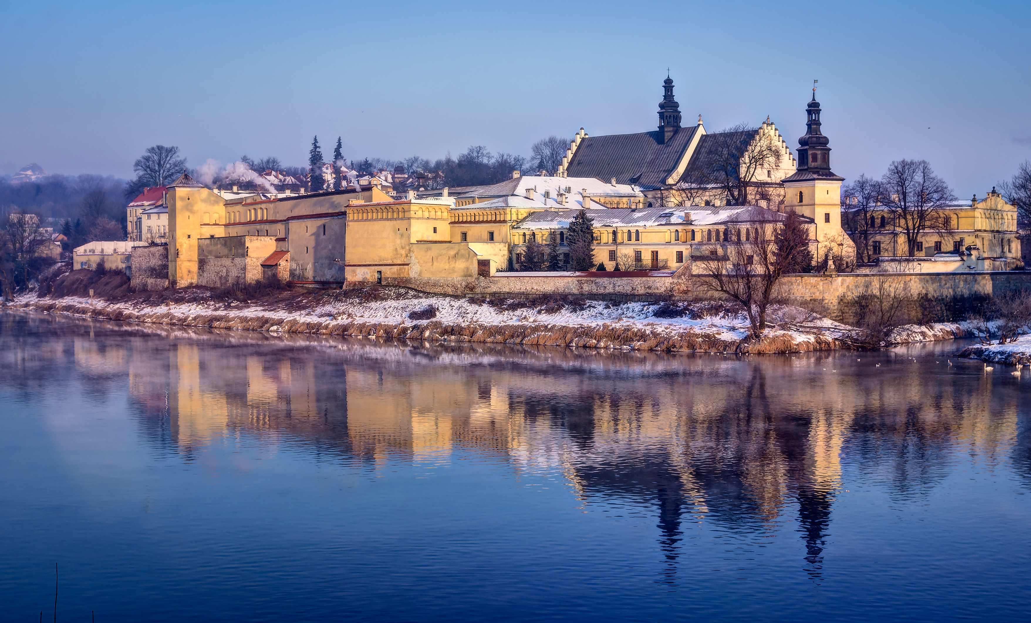 Convent of Norbertine Sisters in Kraków-Zwierzyniec.